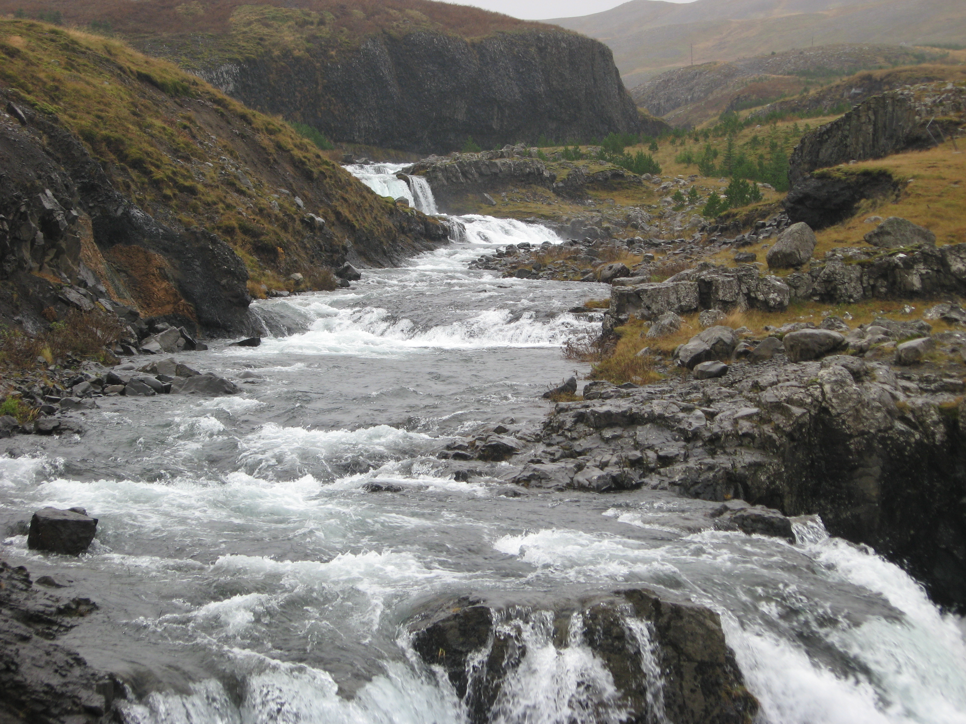 The Fossa River and Waterfall in Iceland. Taken in October 2007.